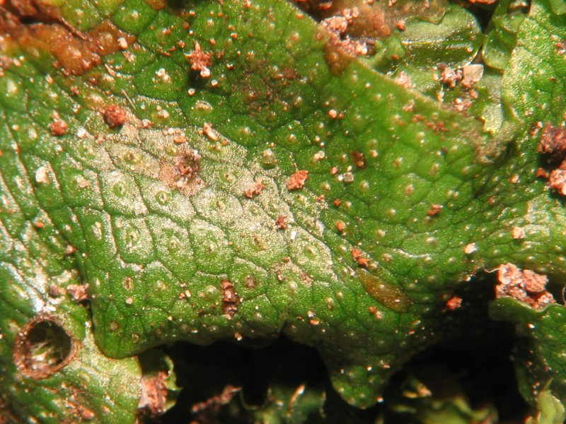 Kegelkopf-Lebermoos Conocephalum conicum, Rostock